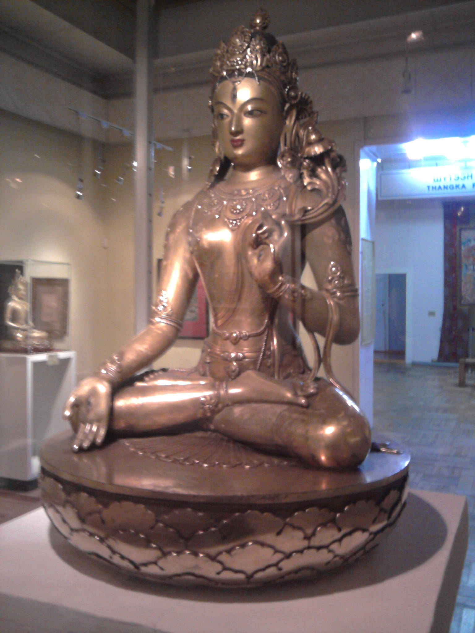 White Tara by Öndör Gegeen Zanabazar, 17th century, Mongolia. At the Fine Arts Museum, Ulaanbaatar Монгол: ᠴᠠᠭᠠᠨ ᠳᠠᠷᠠ ᠡᠬᠡ ᠪᠣᠷᠬᠠᠨ᠃ ᠥᠨᠳᠦᠷ ᠭᠡᠭᠡᠭᠡᠨ ᠵᠠᠨᠠᠪᠠᠵᠠᠷ ᠣᠨ ᠪᠦᠲᠥᠭᠡᠯ᠃ 17 ᠎᠍~ᠷ ᠵᠠᠭᠣᠨ᠃